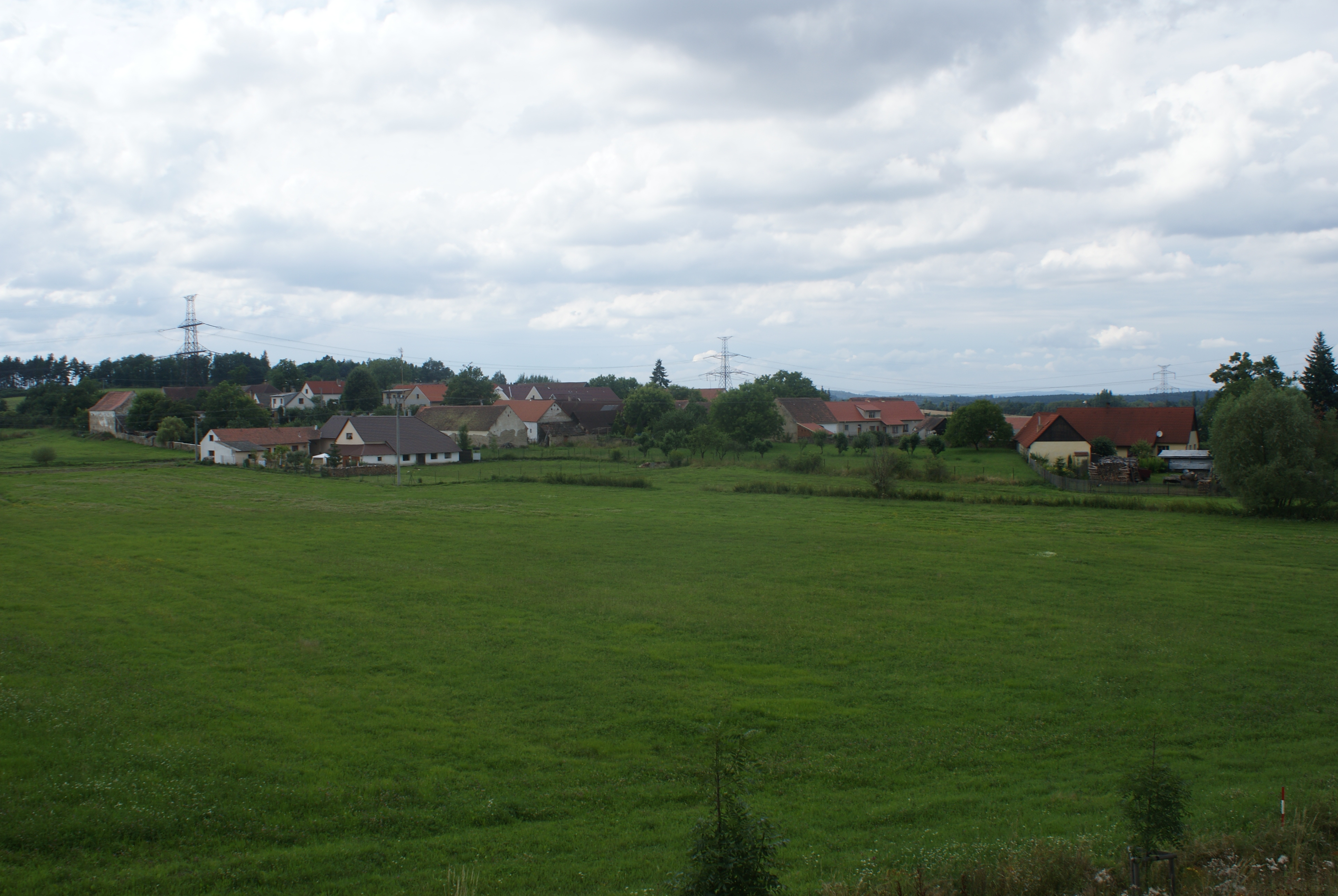 Třebkov, a village in Písek district, Czech Republic, general view.